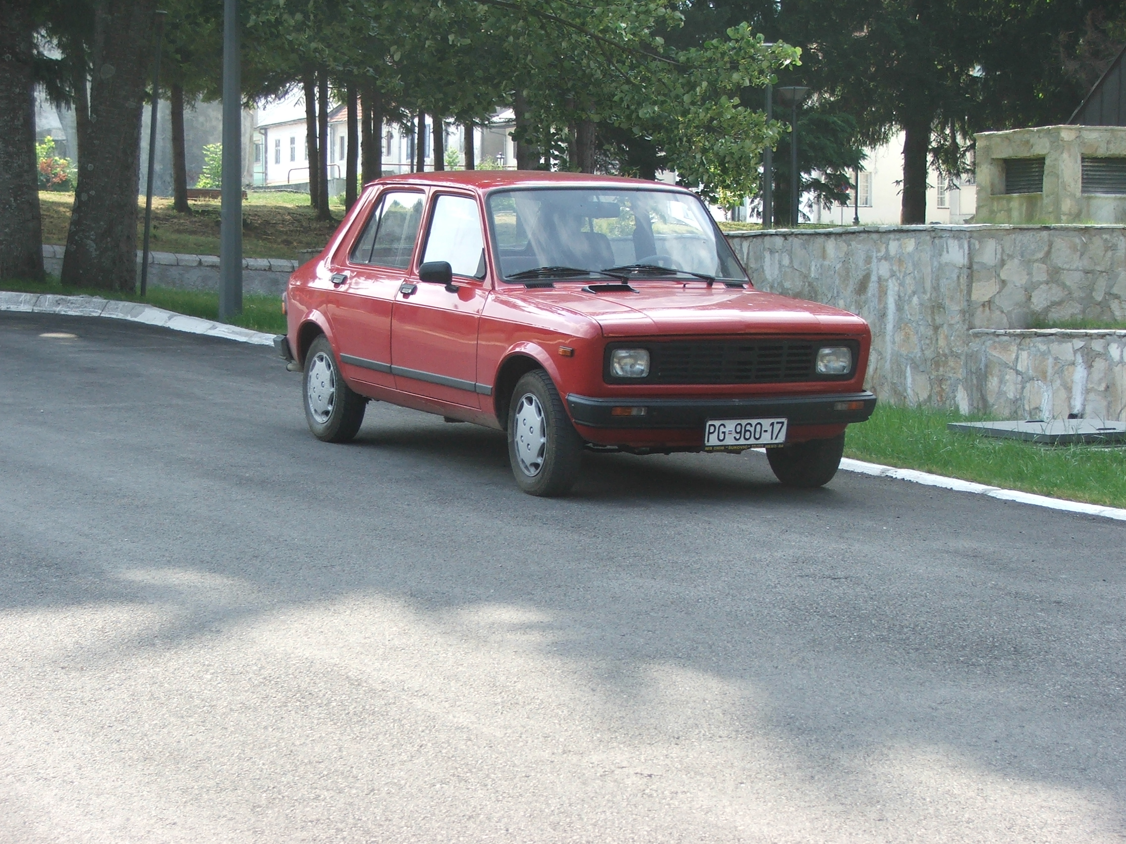 Zastava Skala taken near Mount Lovcen of Montenegro (Crna Gora).